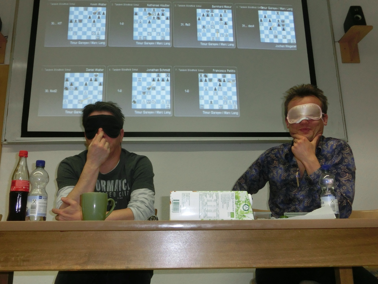 Blindfold Chess Experts GM Timur Gareyev and Marc Lang